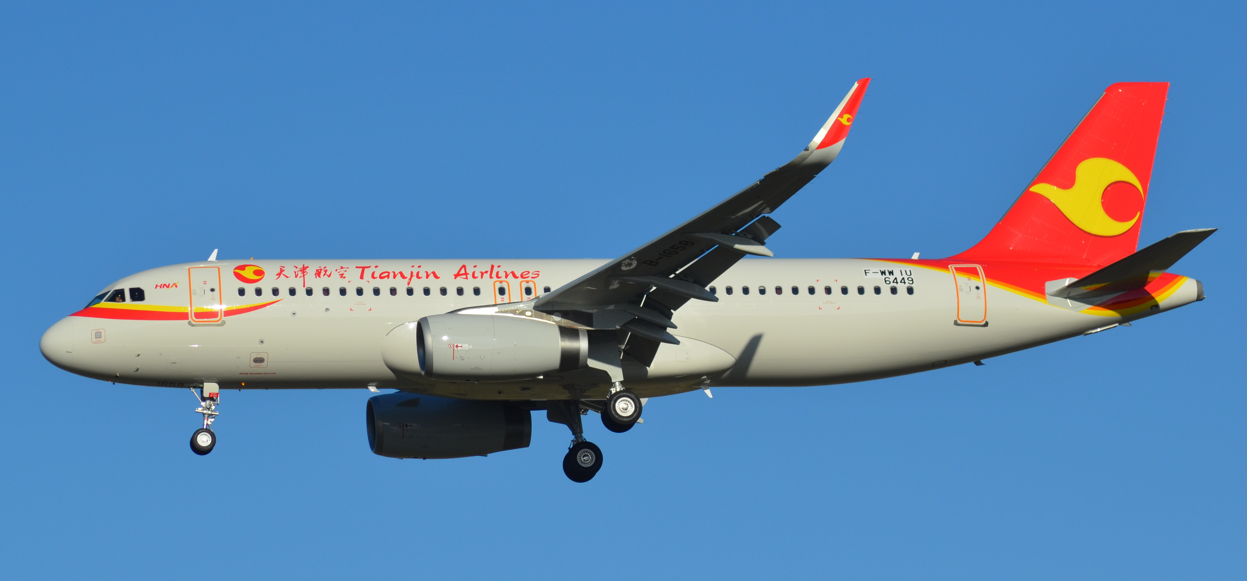 320.SHK TIANJIN AIRLINES F-WWIU 6449 TO B-1658 09 02 15 TLS